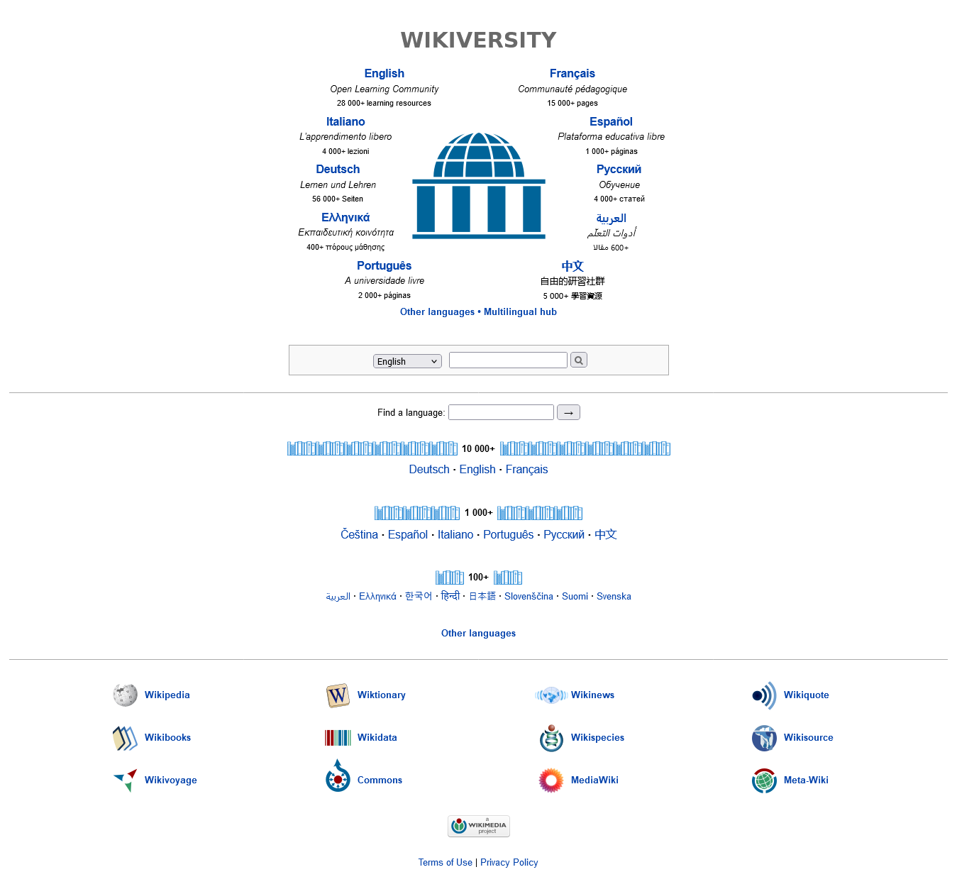 Screenshot of the multilingual Wikiversity portal (